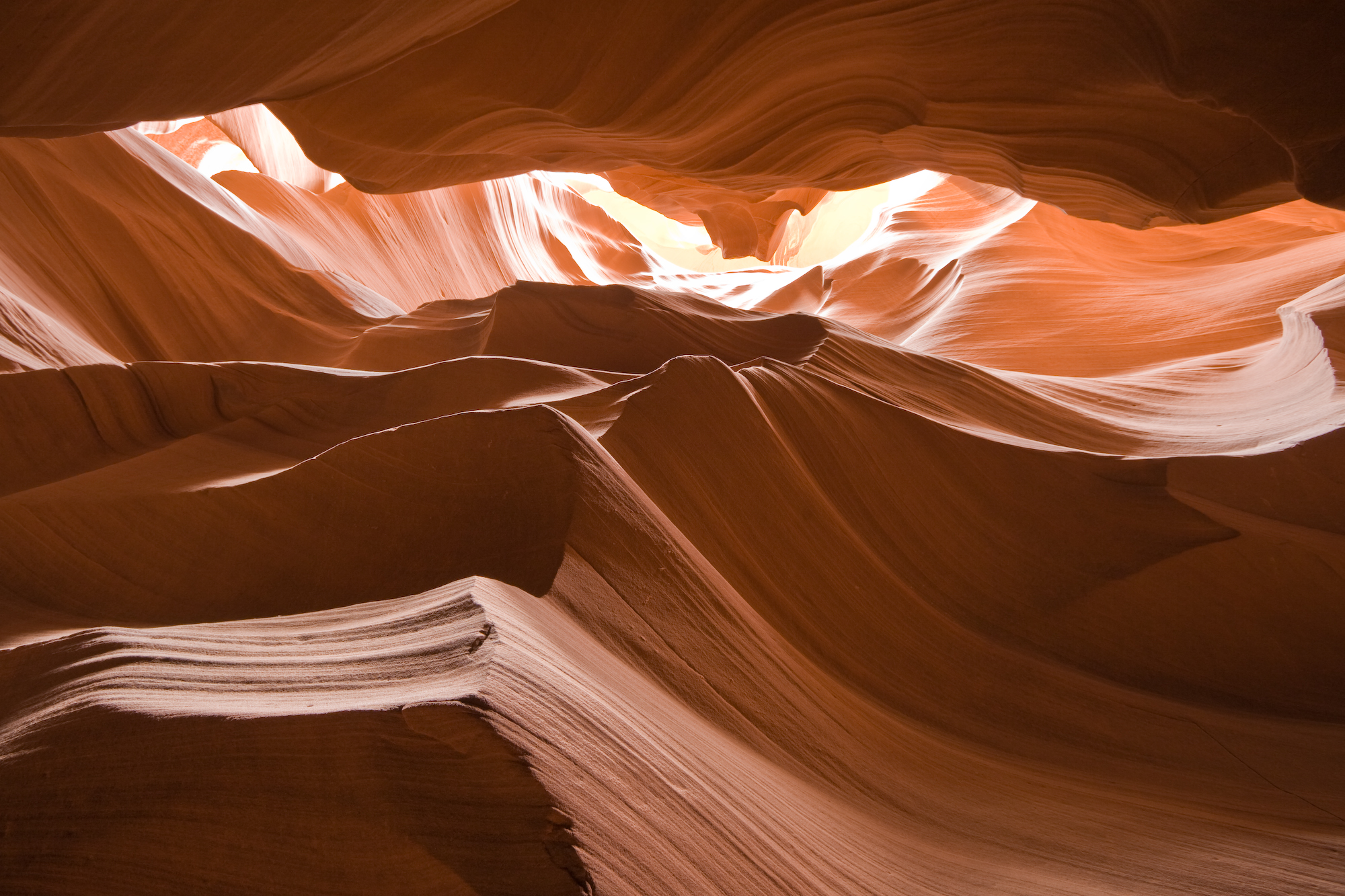 Inside Upper Antelope Canyon, Page, Arizona. Antelope Canyon is a slot canyon in the American Southwest that was formed by erosion of Navajo Sandstone, primarily due to flash flooding and secondarily due to other Sub-aerial processes.